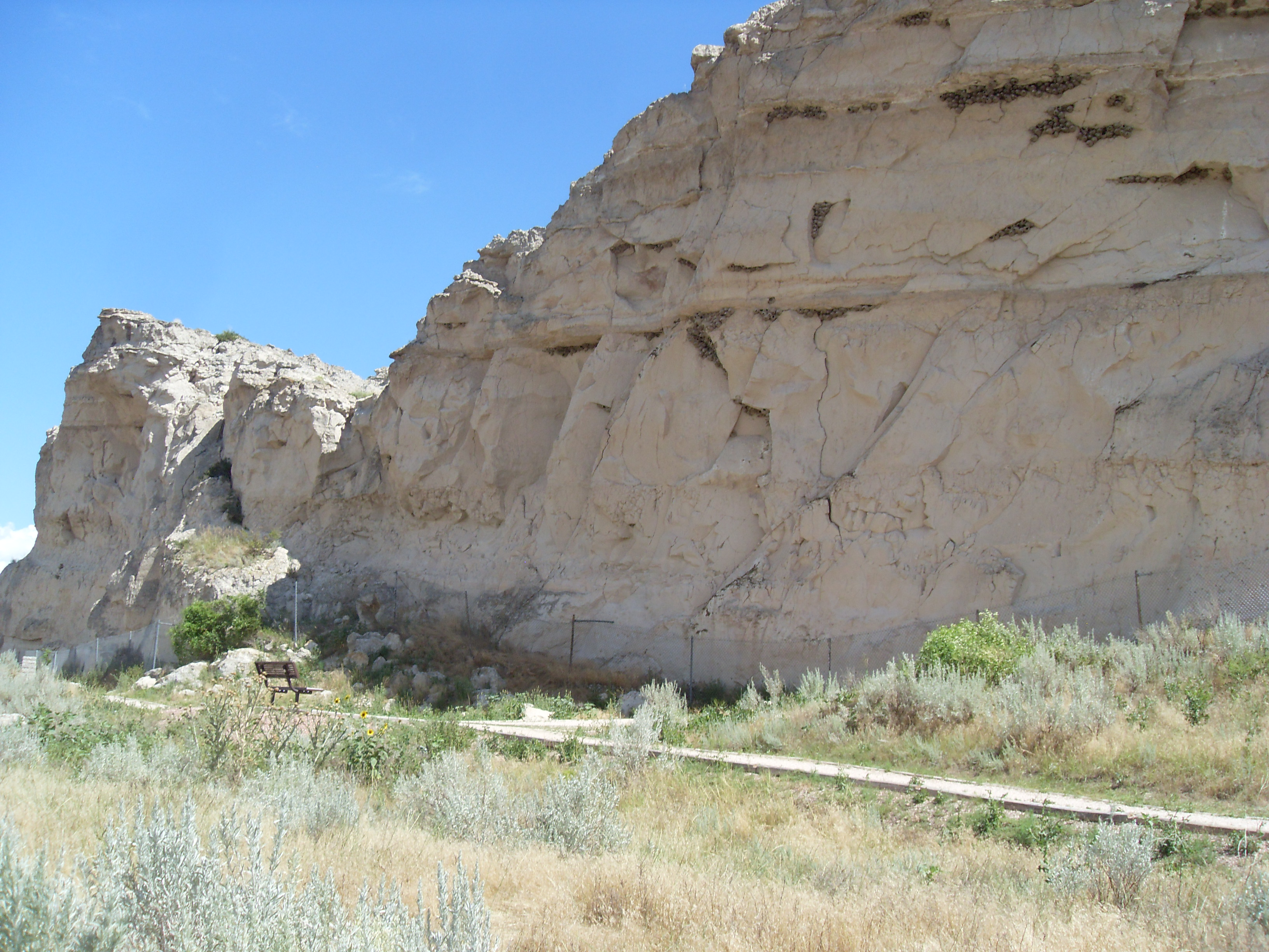 Register Cliff